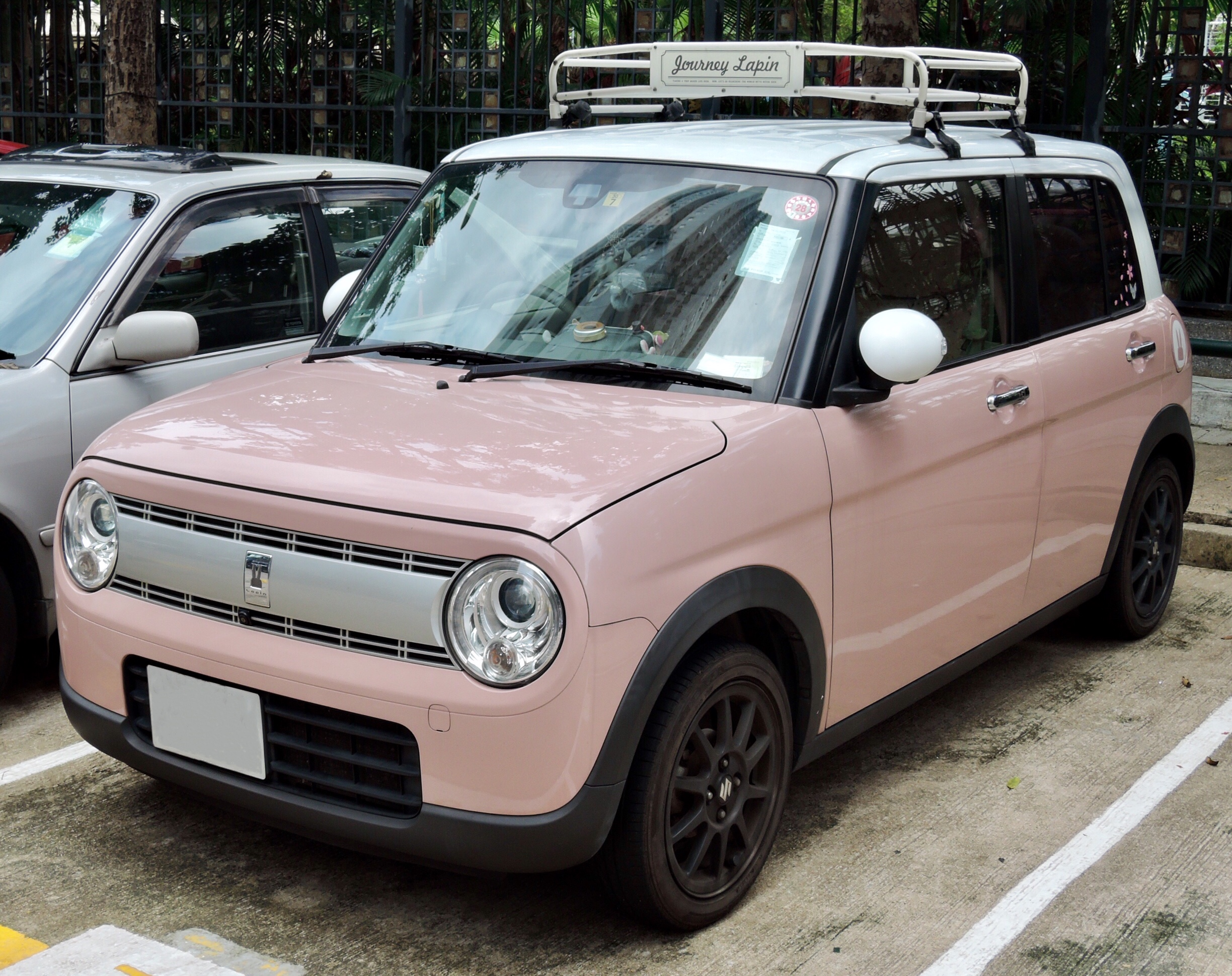 Taken in Hang Hau, Sai Kung District, Hong Kong.